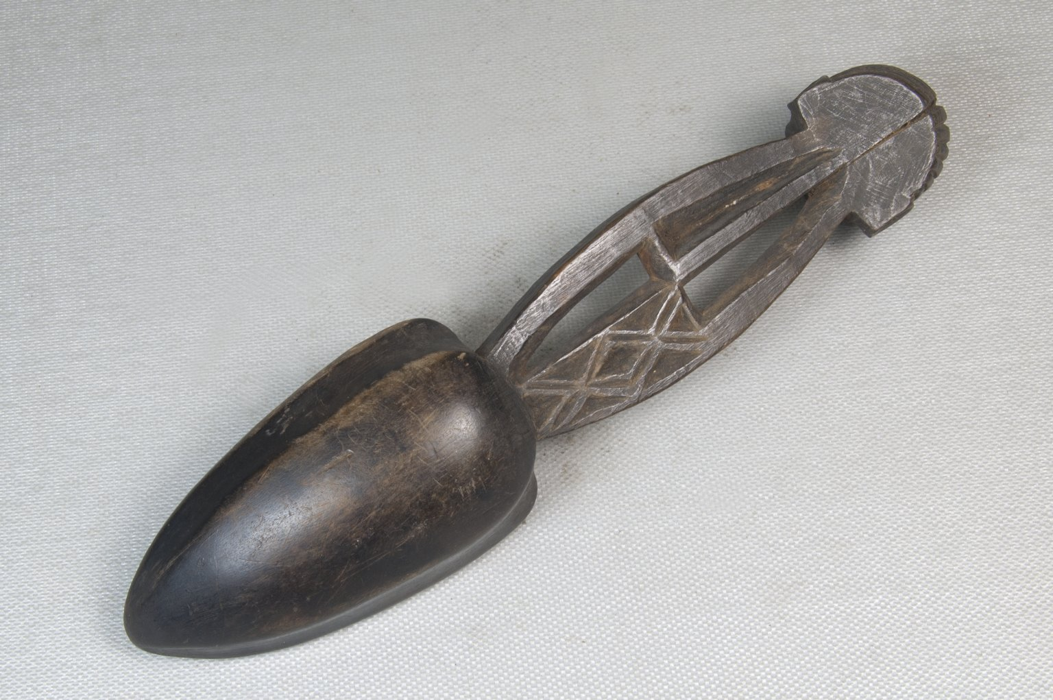 Spoon